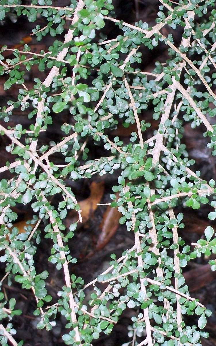 Phyllanthus microcladus at Coffs Harbour Botanic Gardens